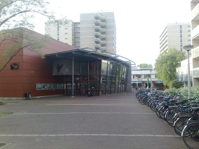 View of Uilenstede, studentcampus of Free University (Amsterdam).